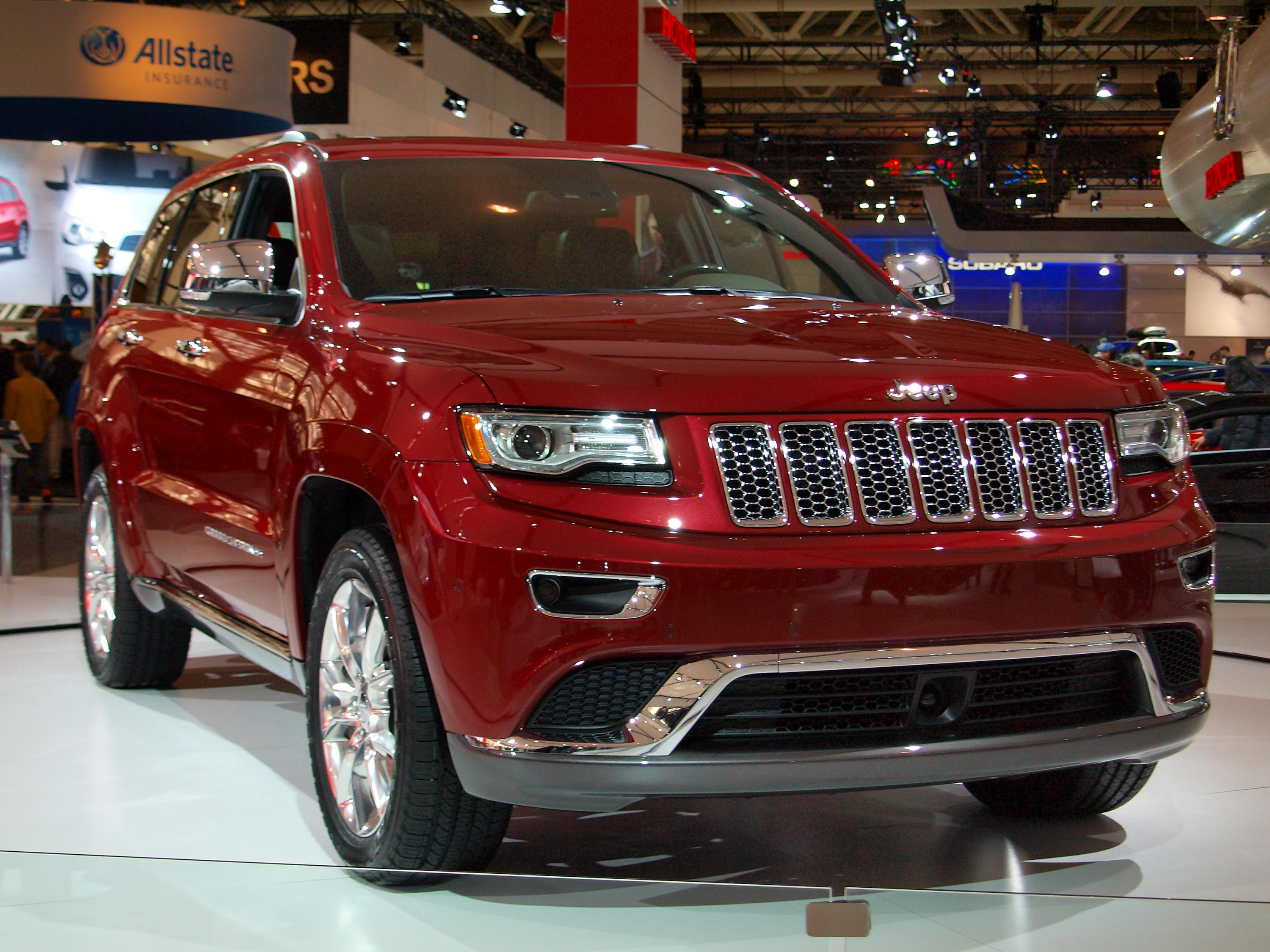 Interesting headlights.